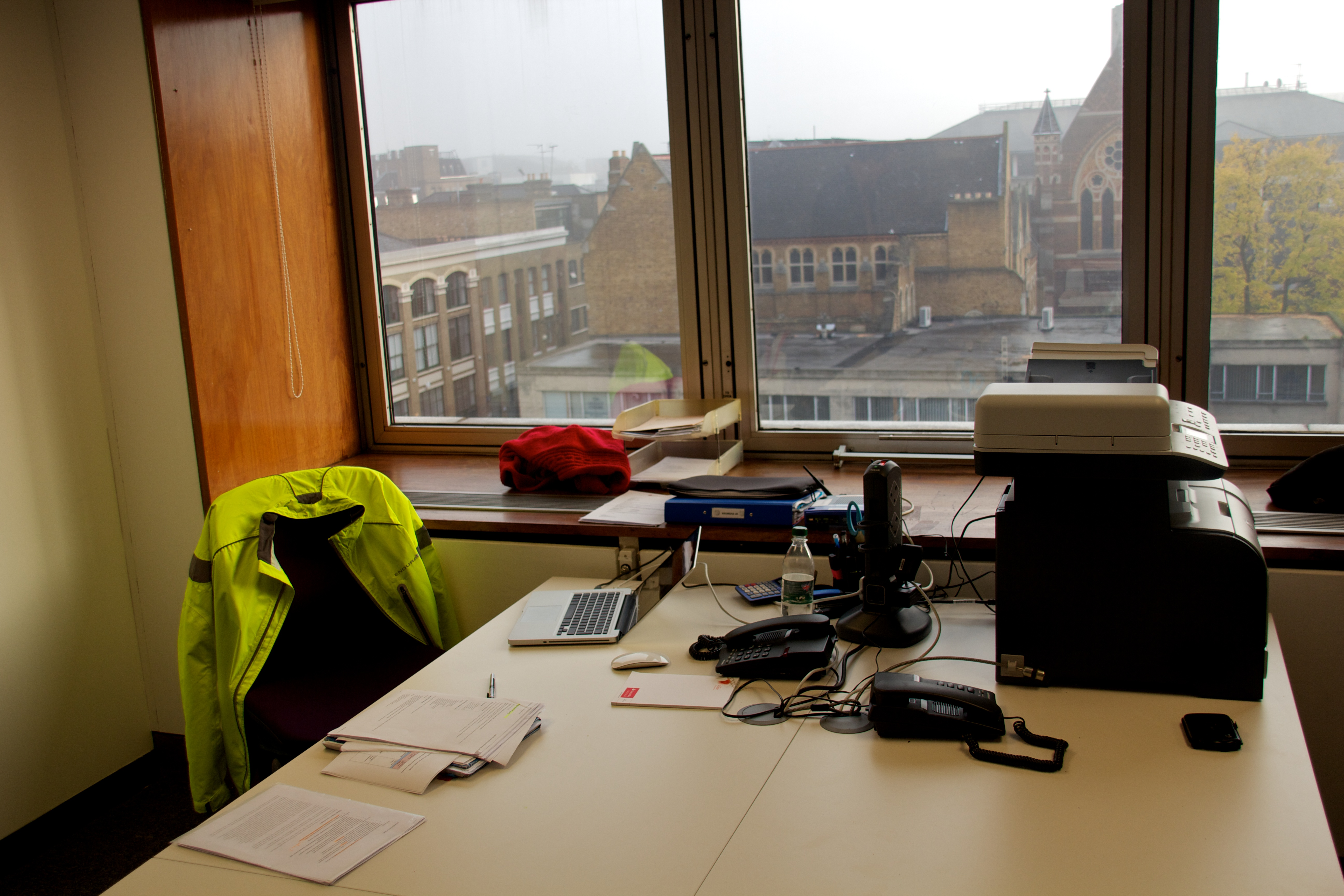 The Wikimedia UK offices - Deskspace.